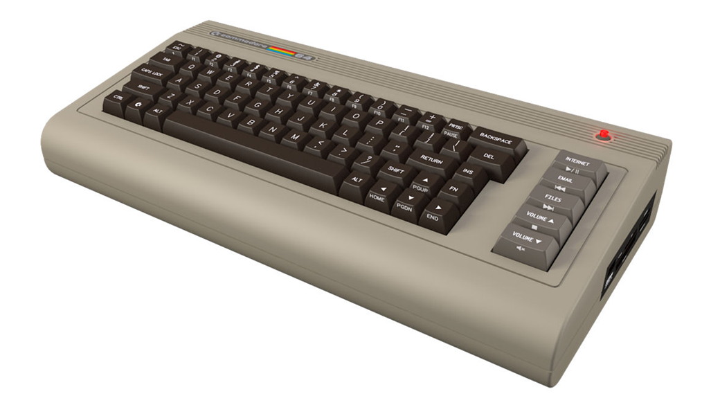 Commodore 64x (C64x) by Commodore USA LLC. Despite the name and appearance, this is a generic "Wintel" PC clone that only provides C64 compatibility via an emulator, the same as any other Windows PC.